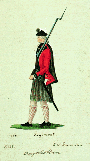 84th Regiment of Foot (Royal Highland Emigrants)